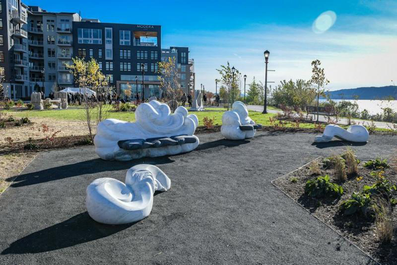 As part of the City of Yonkers’ extensive downtown revitalization project, Barbara Segal has designed and overseen the production of a sculpture park on the Hudson River waterfront. Ms. Segal and three other New York artists have carved four individual “Outdoor Rooms” out of Vermont white marble and Indiana limestone for this innovative “Yonkers Sculpture Meadow on the Hudson.” These rooms are functional seating for the public to enjoy.